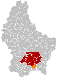 Own edit of Kanton LuxemburgLocatie.png